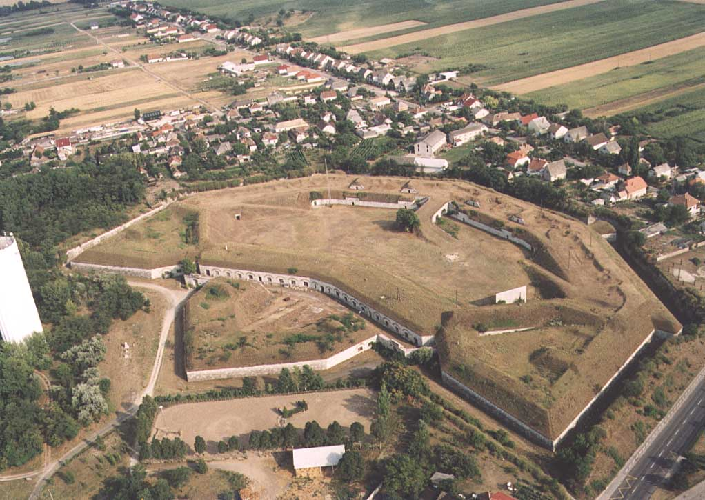 Fortress - Komárom - Hungary - Europe (Igmándi erőd) Sóhivatal